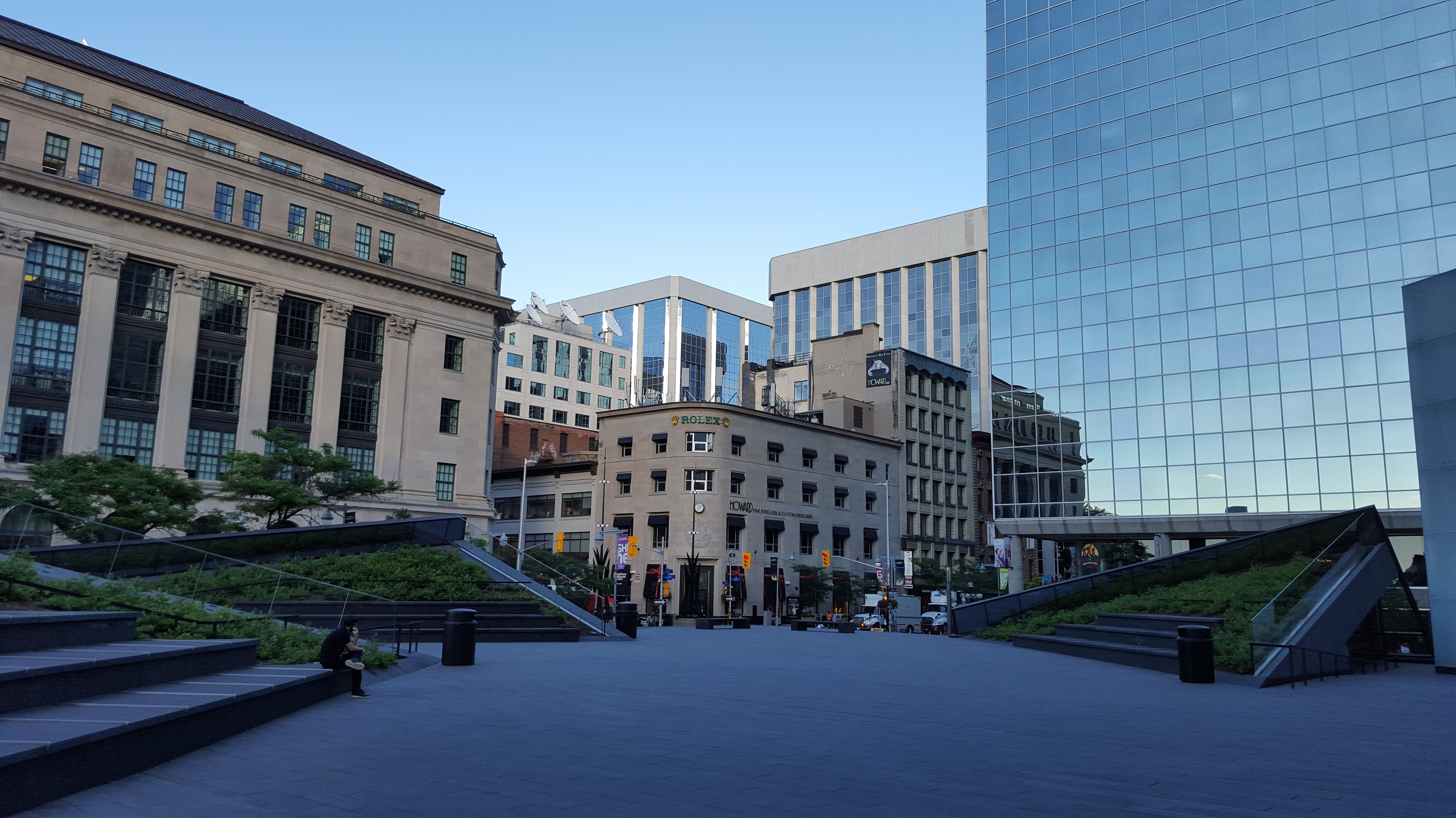 The Bank of Canada Museum (Ottawa), view from the top. The Bank of Canada building (right) housed te previous version of the museum known as the Currency Museum (closed in 2013).